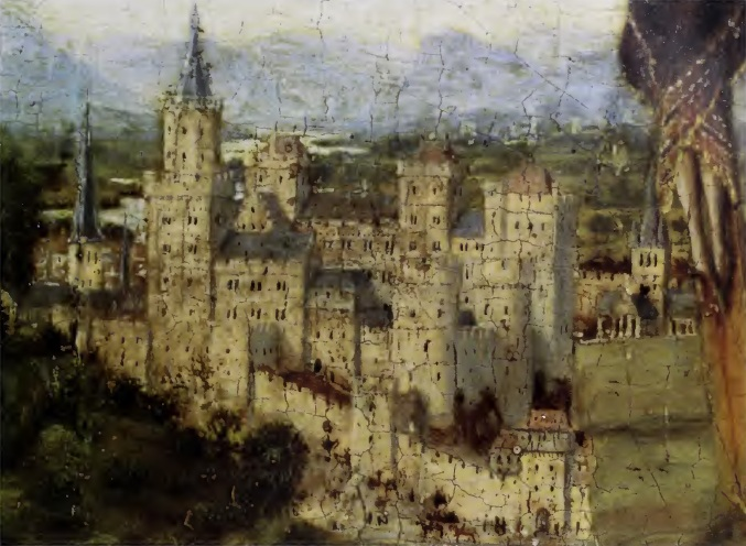 Detail from Saint Francis of Assisi Receiving the Stigmata (Turin)